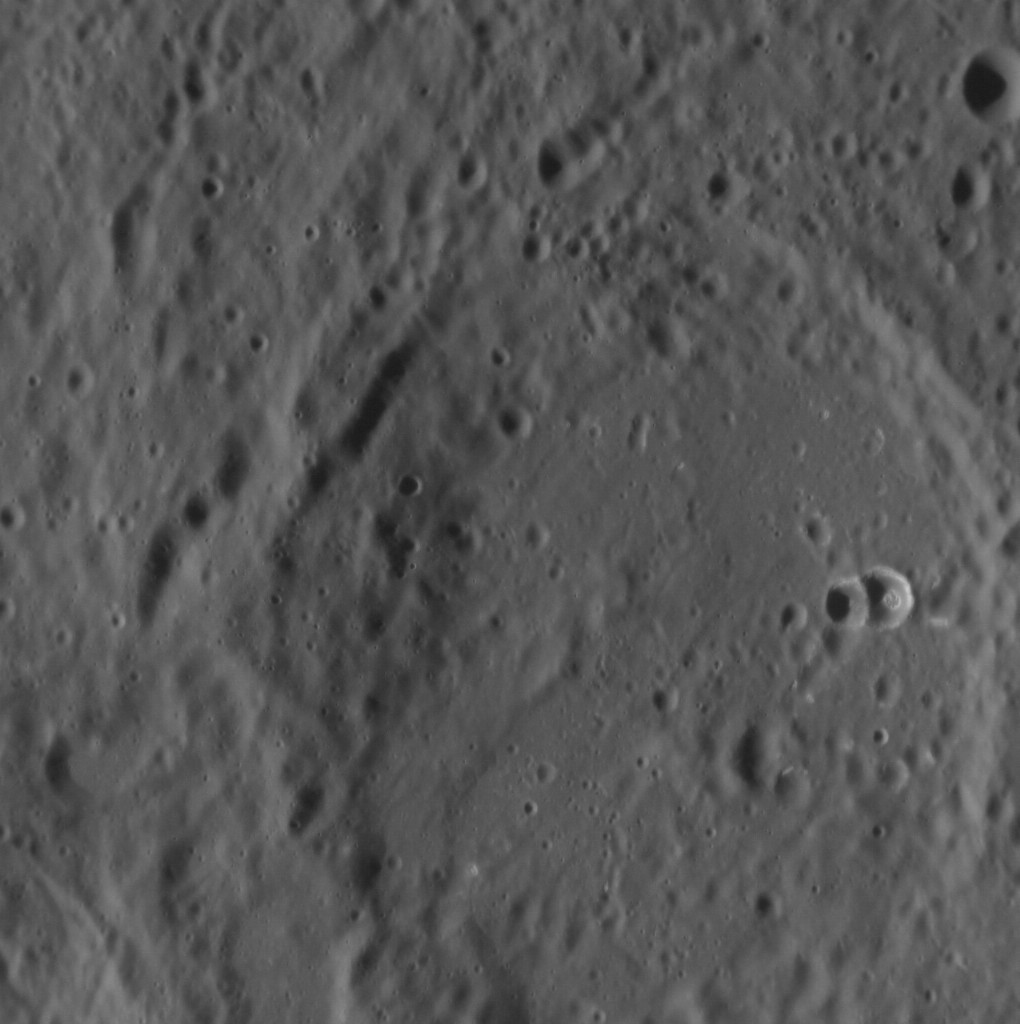 Al-Jāhiz crater on Mercury. MESSENGER Narrow Angle Camera. Emission Angle: 34.8 Incidence Angle: 68.7 Latitude: 1.8 Longitude: 338.0 Phase Angle: 103.6